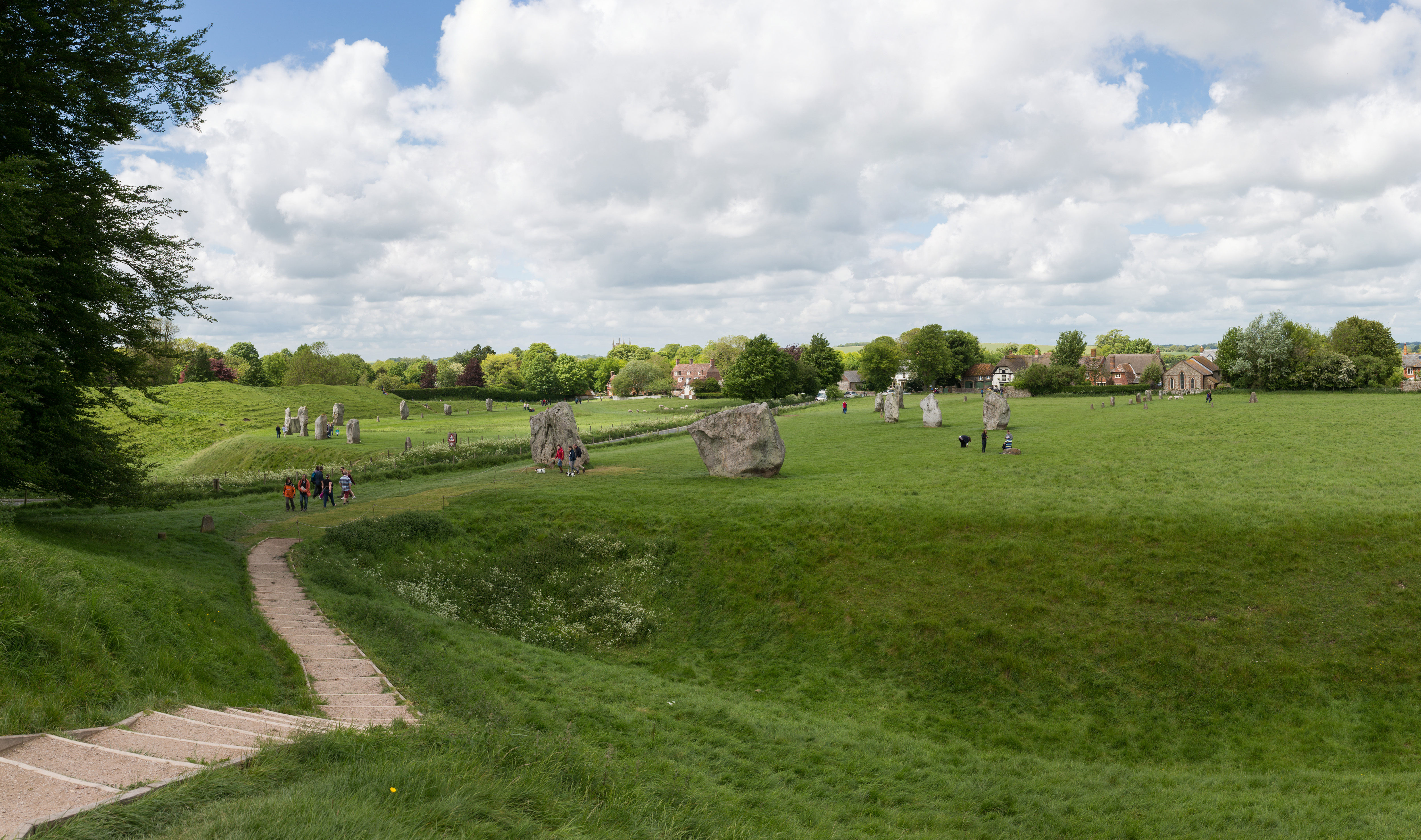 A panoramic view of the South Inner Circle of Avebury, and the henge that surrounds it.